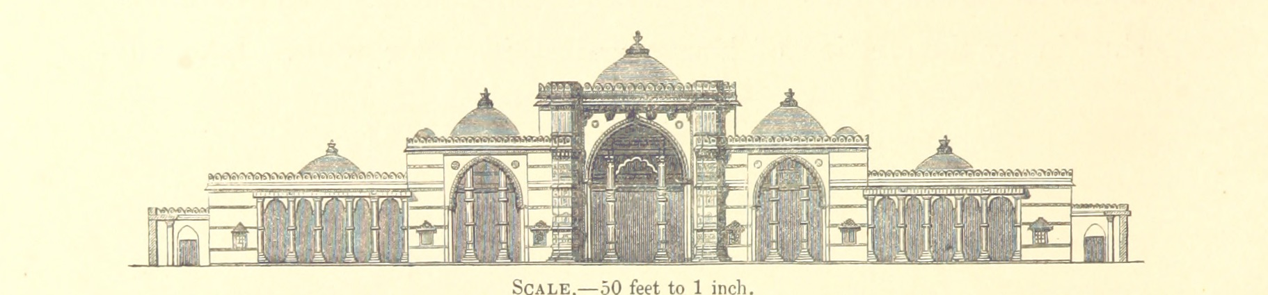 Image taken from: Title: "Architecture at Ahmedabad, the Capital of Goozerat, photographed by Colonel Biggs, ... With an historical and descriptive sketch, by T. C. H., ... and architectural notes by J. Fergusson, etc" Author: HOPE, Theodore Cracraft - Sir, K.C.S.I Contributor: BIGGS, Thomas. Contributor: FERGUSSON, James - Architect Shelfmark: "British Library HMNTS 10057.f.17.", "British Library OC V 6665" Page: 70 Place of Publishing: London Date of Publishing: 1866 Issuance: monographic Identifier: 001730119 Explore: Find this item in the British Library catalogue, 'Explore'. Download the PDF for this book (volume: 0) Image found on book scan 70 (NB not necessarily a page number) Download the OCR-derived text for this volume: (plain text) or (json) Click here to see all the illustrations in this book and click here to browse other illustrations published in books in the same year. Order a higher quality version from here.